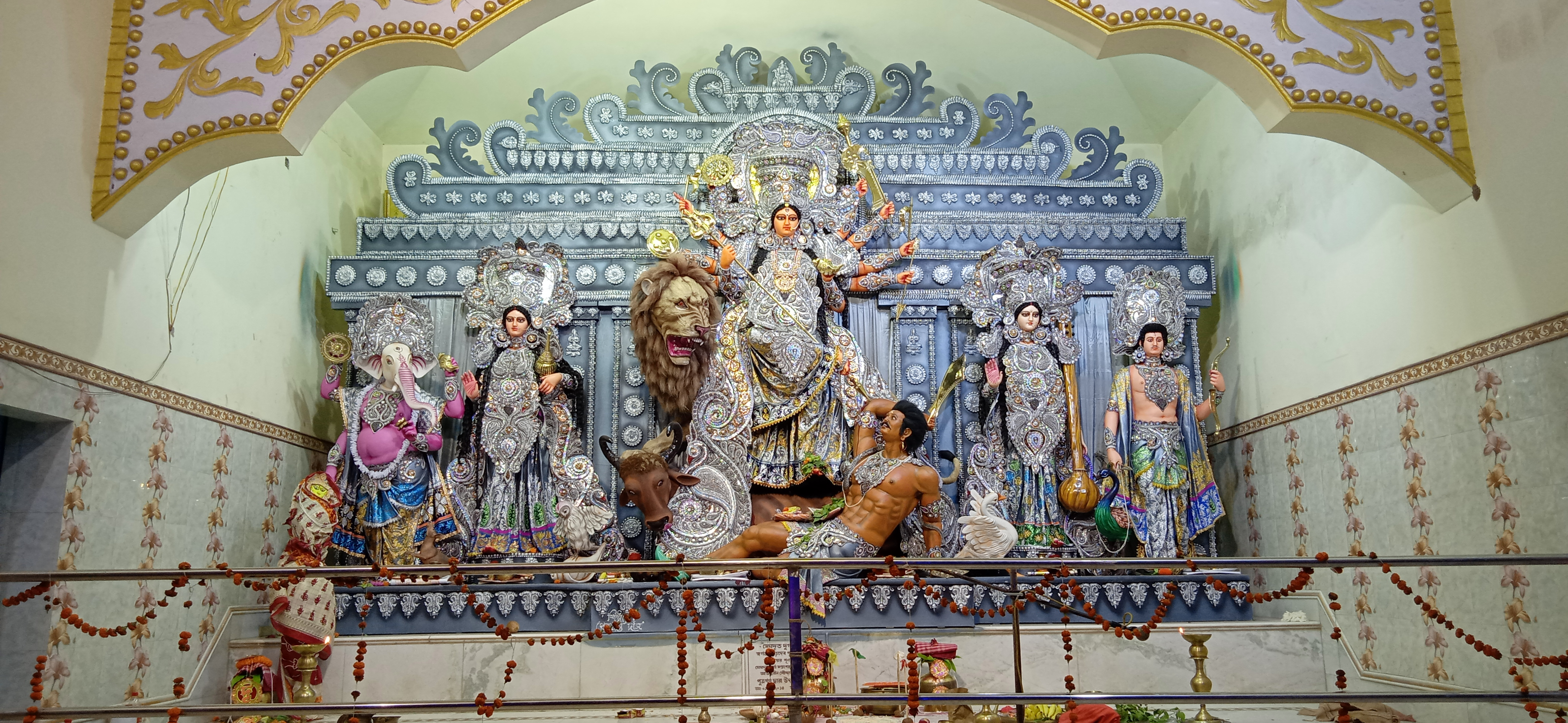 This file represents the Durga Puja Festival in Sainthia city.